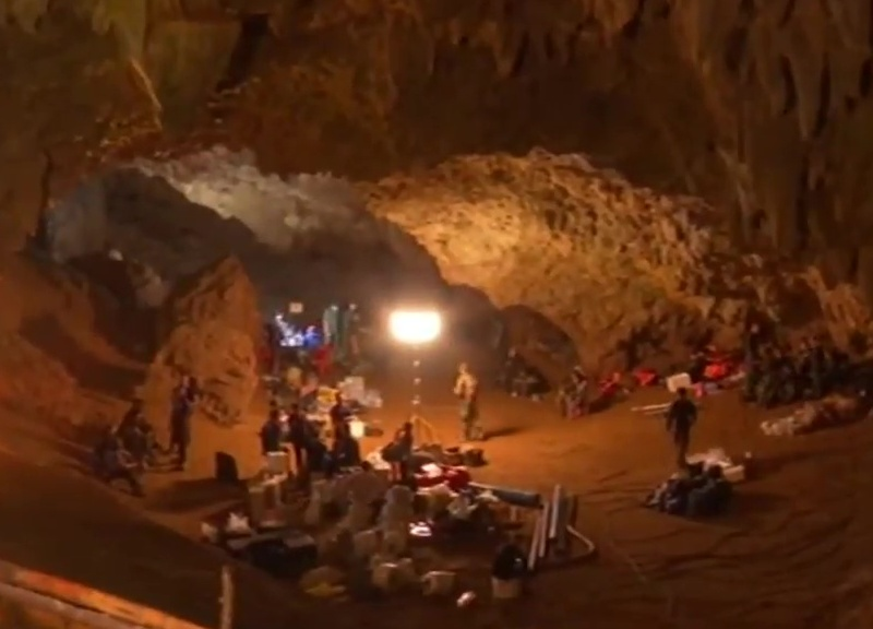 Personnel and equipment in the entrance chamber of Tham Luang cave during rescue operations during 26–27 June 2018. Screen capture from NBT news report.